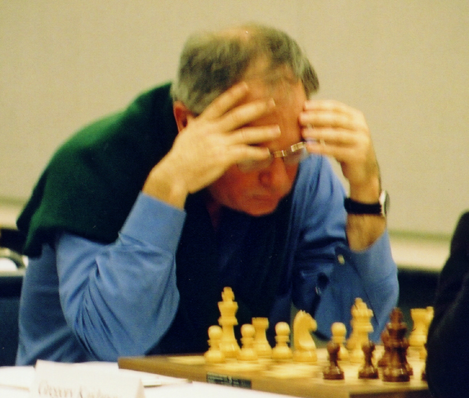 Walter Browne, multi-time U.S. Chess Champion, at the 2002 U.S. Chess Championships.